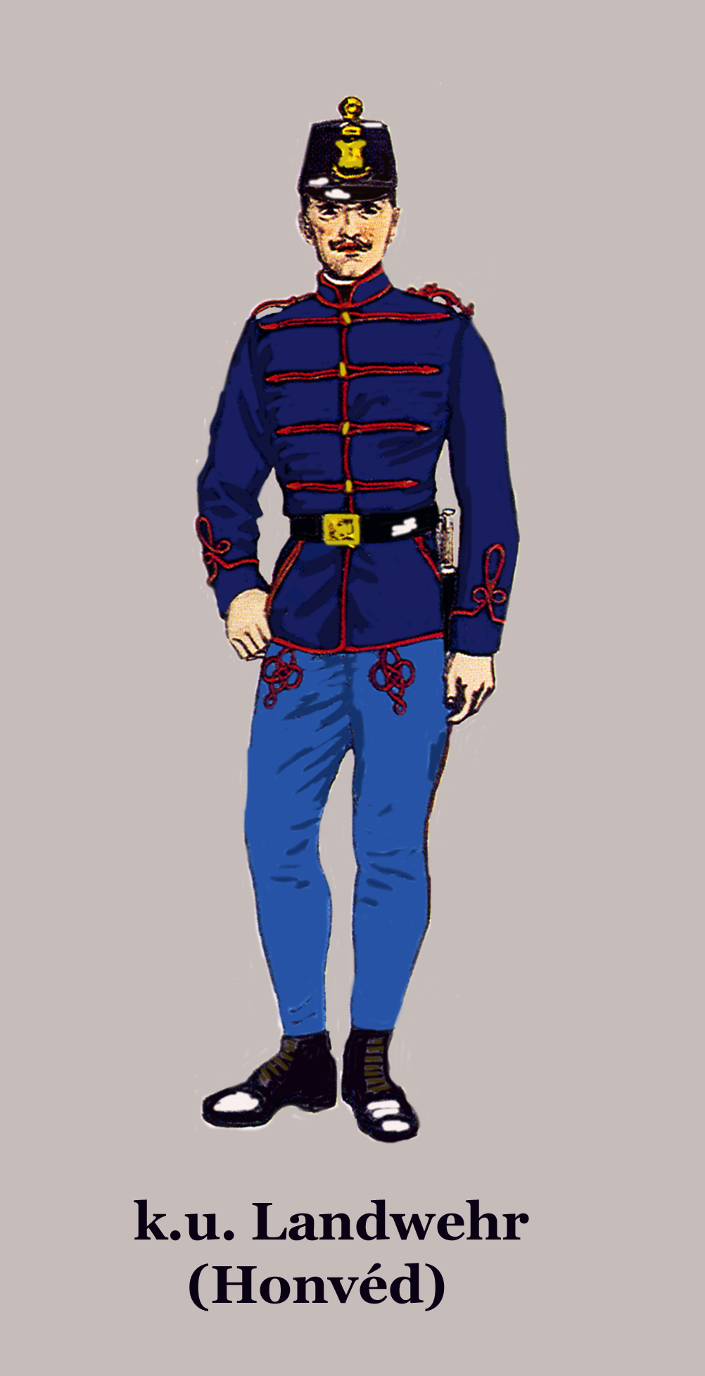 Soldier of the royal hungarian Honvéd infantry in paradedress about 1908